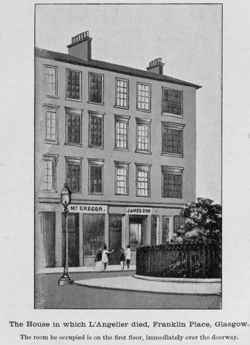 Image from the Scottish trial of Madeline Smith